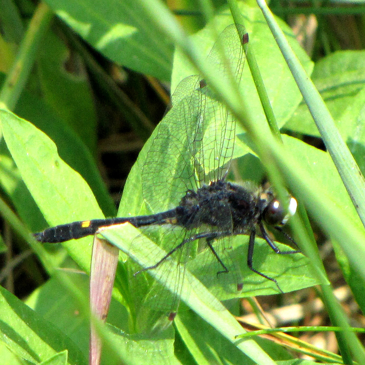 Dot-tailed_Whiteface (Leucorrhinia intacta), Ottawa, Ontario, Canada